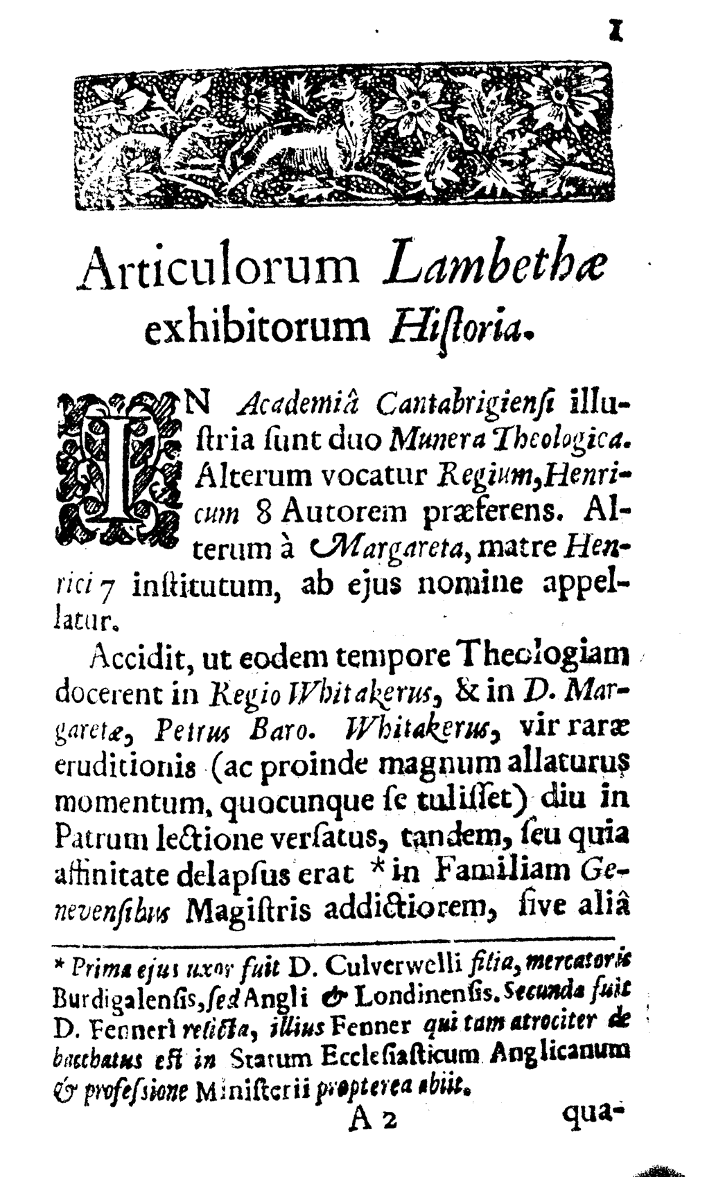 Title page of Lancelot Andrewes's Lambeth articles history, first latin edition, 1651